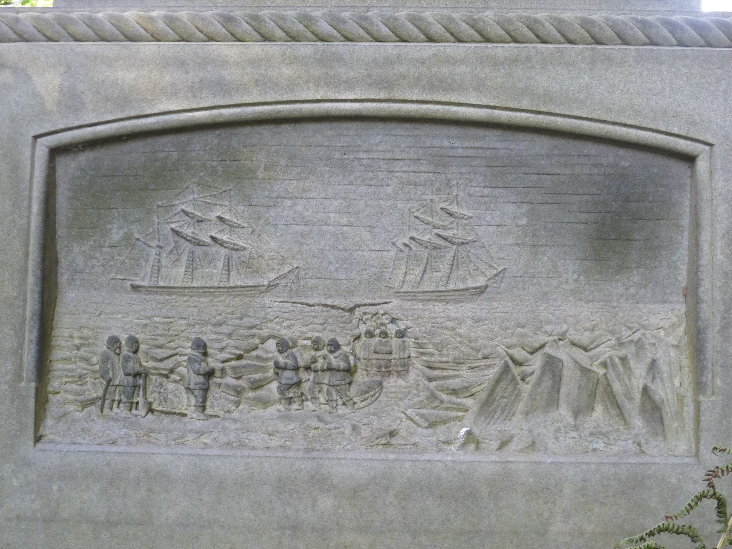 Lt. John Irving,R.N. (1815-1848/49) died whilst serving aboard HMS Terror during the ill-fated Franklin expedition which set out in 1845 to navigate the Northwest Passage. His grave was found later on King William Island by US Army Lt. Frederick Schwatka and his body returned to Edinburgh for burial in 1881.